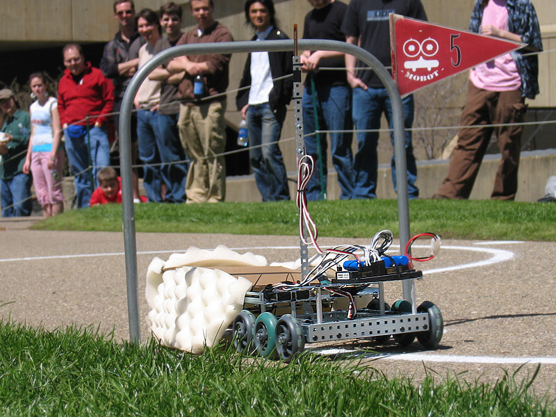 Sharealike license from Flickr user brunkfordbraun.